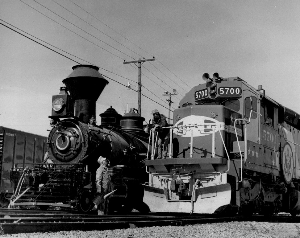 Photo of a Santa Fe steam locomotive from 1876, the Cyrus K. Holliday, and a bicentenial-painted diesel locomotive.